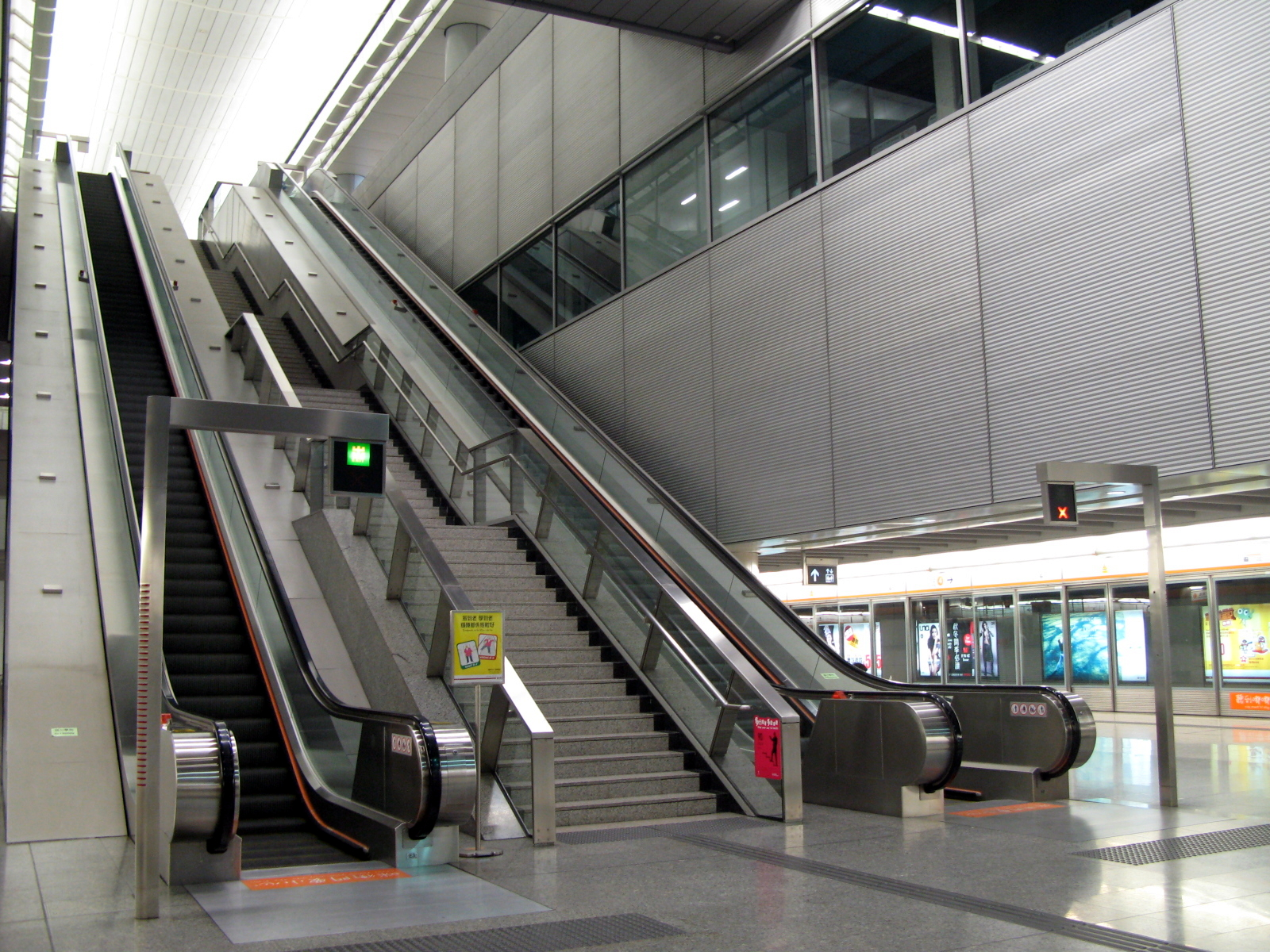 HK MTR Kowloon Station Elevator